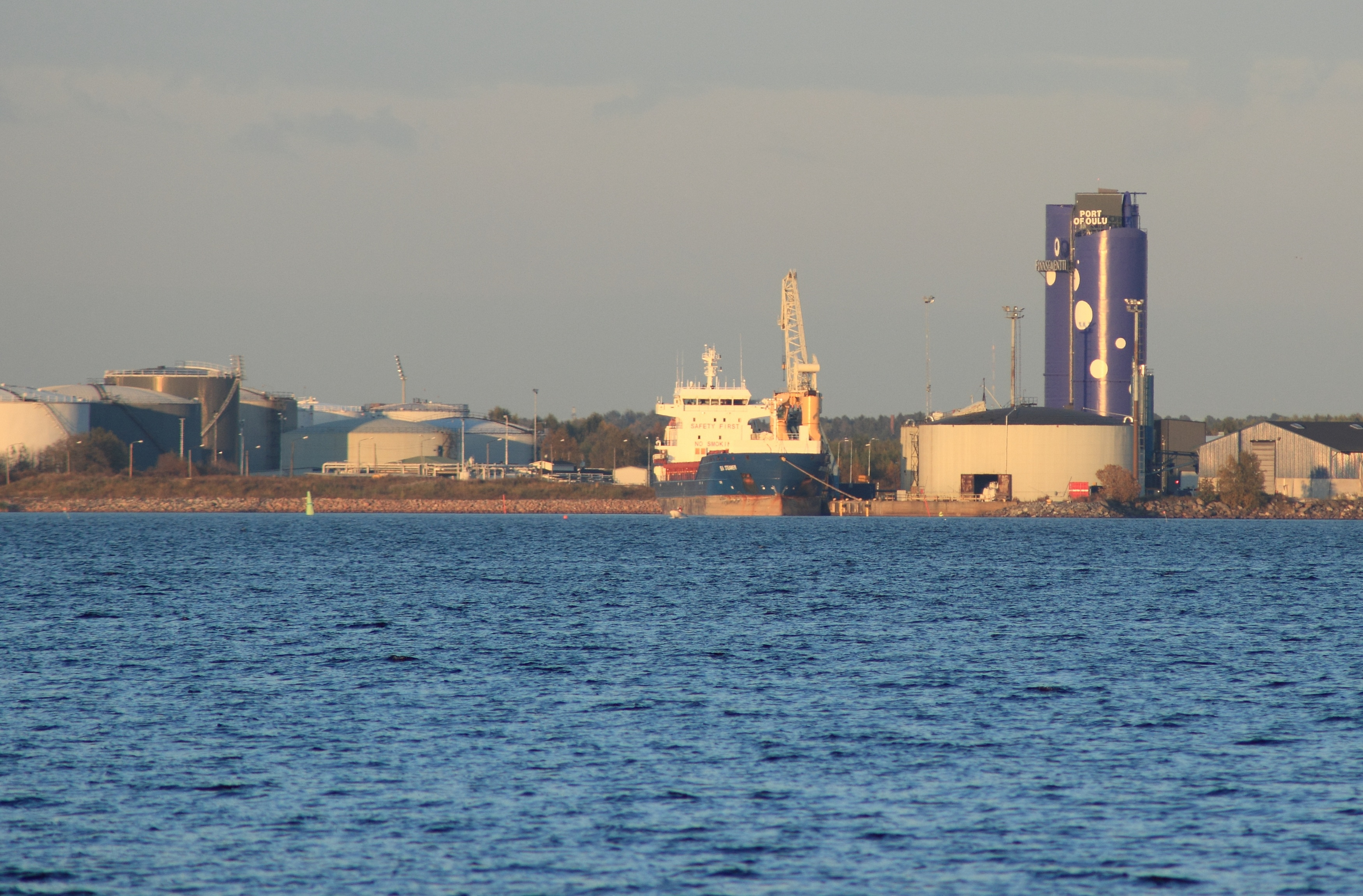 MS Sea Steamer at the Vihreäsaari harbour in Oulu, seen from Varjakka.